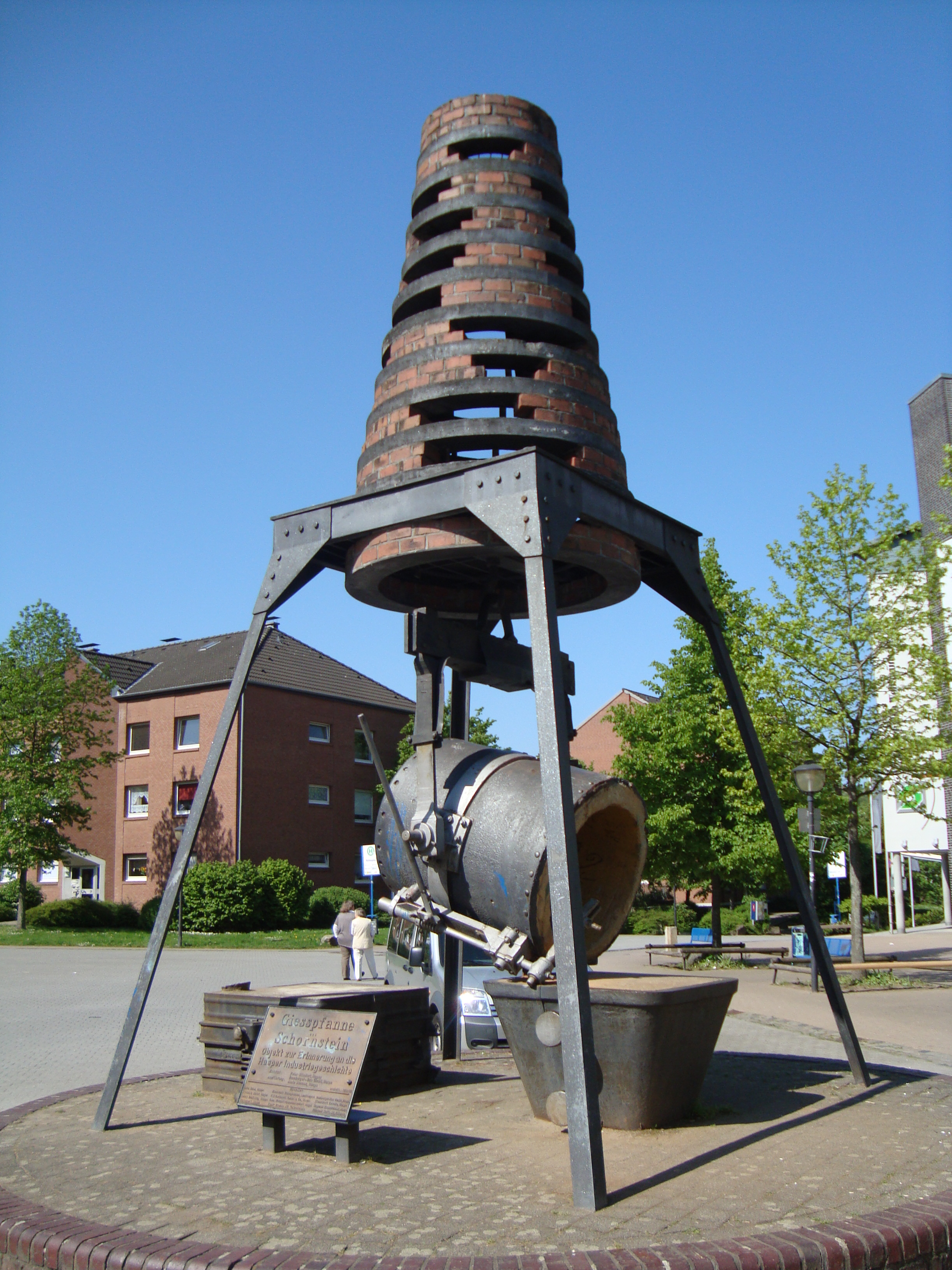 Foundry ladle and chimney. Object for memory of the Hasper industrial history